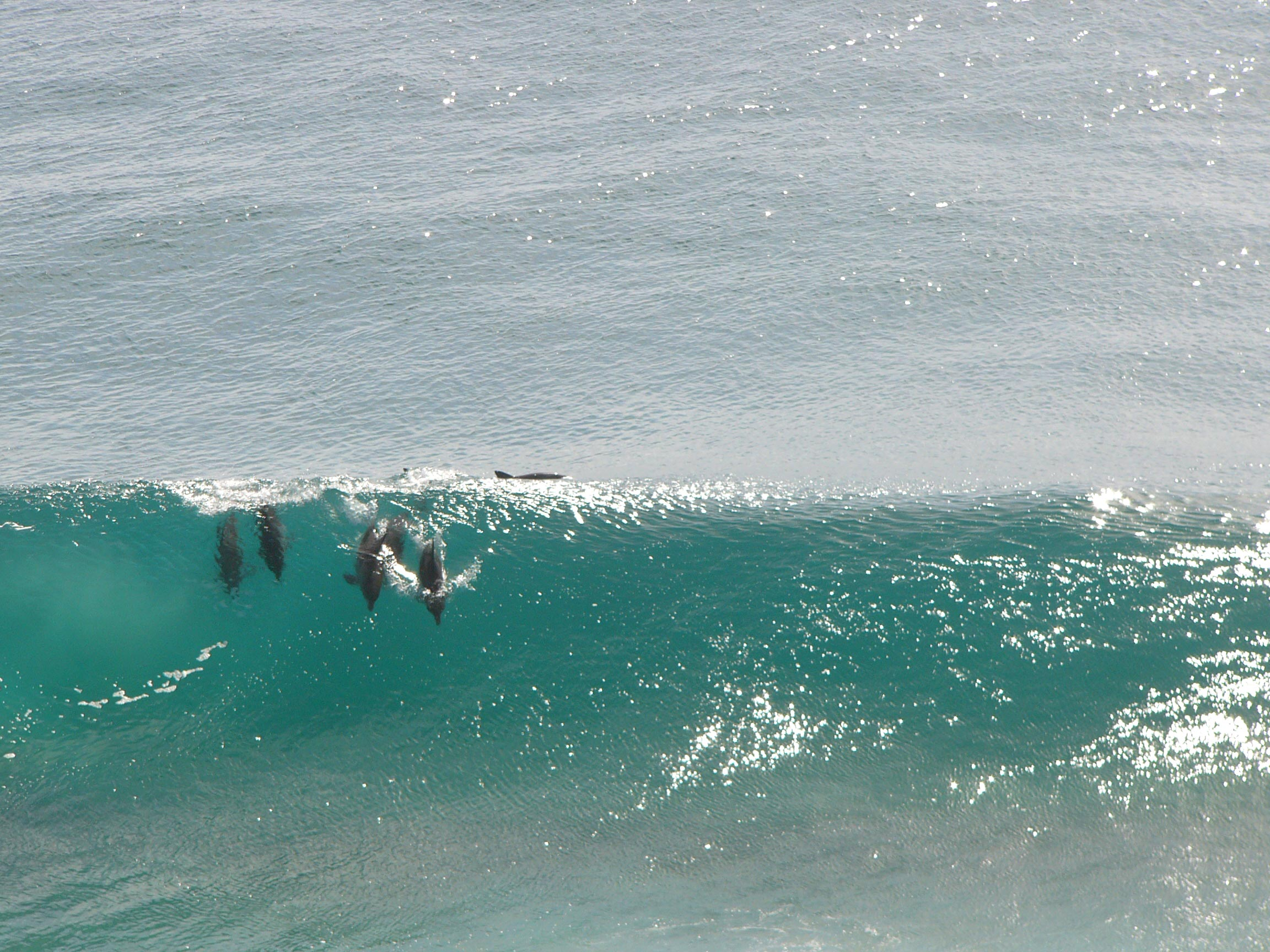 Dolphins 'surfing' a wave at Snapper Rocks, Queensland Australia.